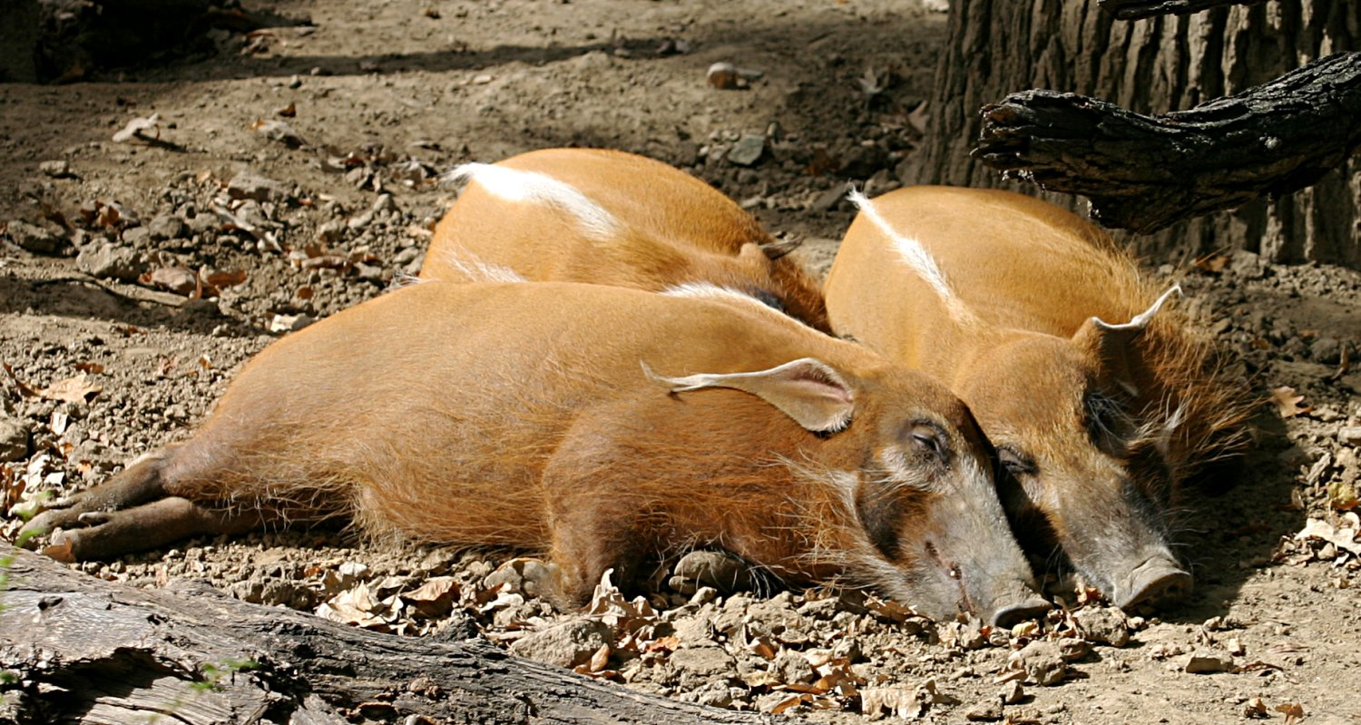 Red River Hogs at the Henry Doorly Zoo in Omaha, Nebraska